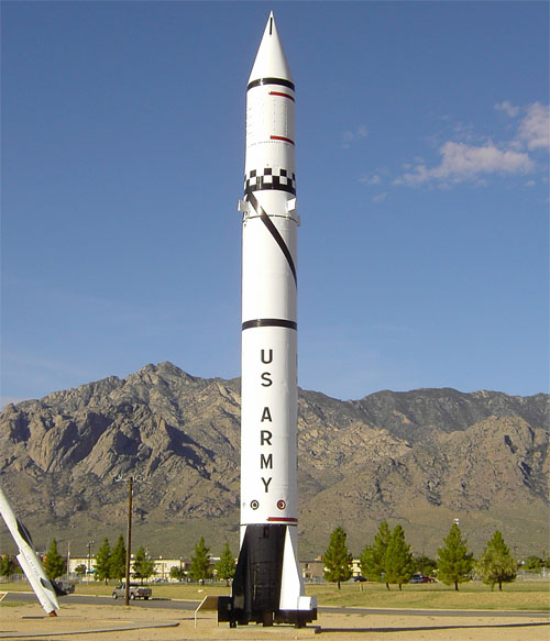 The Redstone ballistic missile. From the source: Designed by Dr. Wernher Von Braun and developed at Redstone Arsenal this was once the Army's largest surface-to-surface ballistic missile. It could deliver a nuclear warhead to targets 200 miles away. The Redstone was used as the first stage of the Jupiter C which successfully orbited America's first satellite. Redstone boosters were also used by NASA to send Alan Shepard into space in 1961.